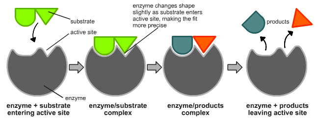 Enzyme / substrate Induced fit diagram